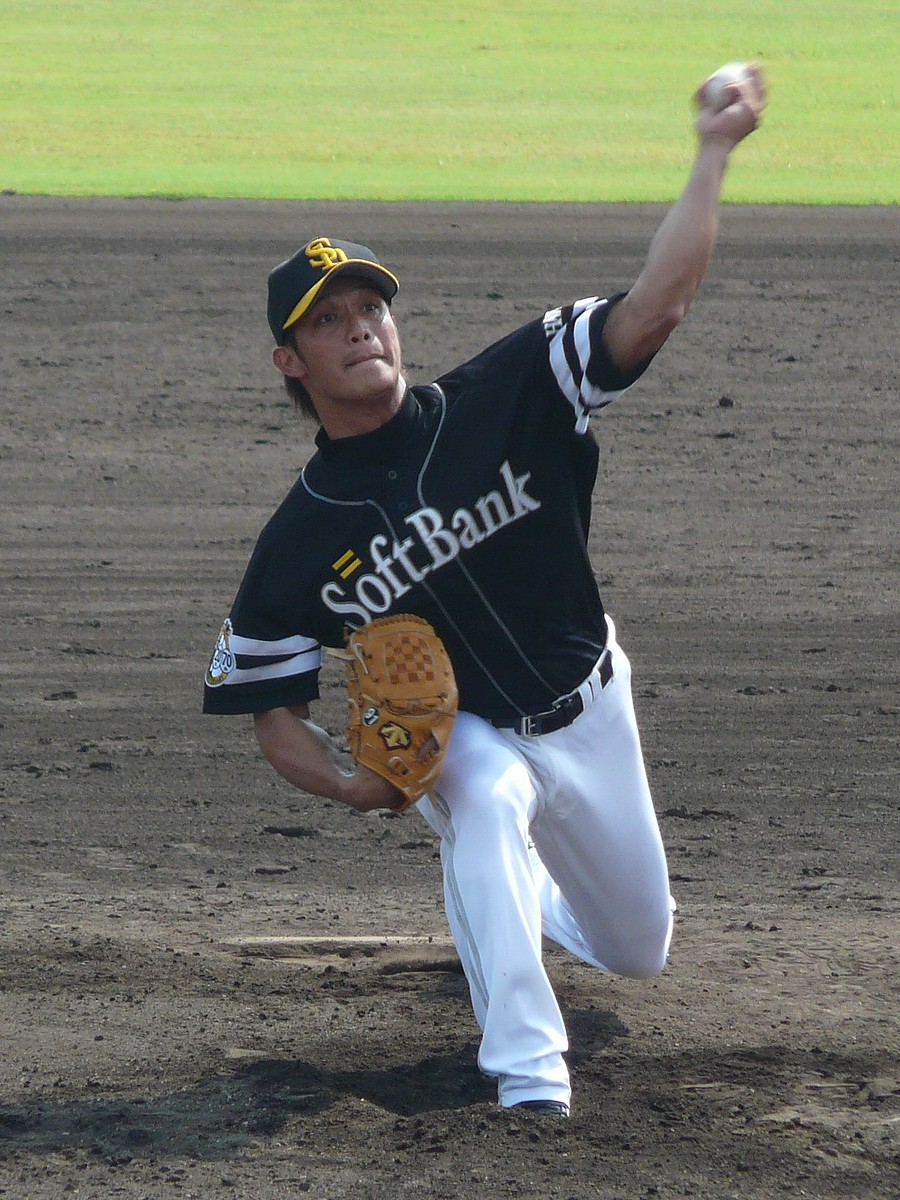 Yao-Hsun Yang